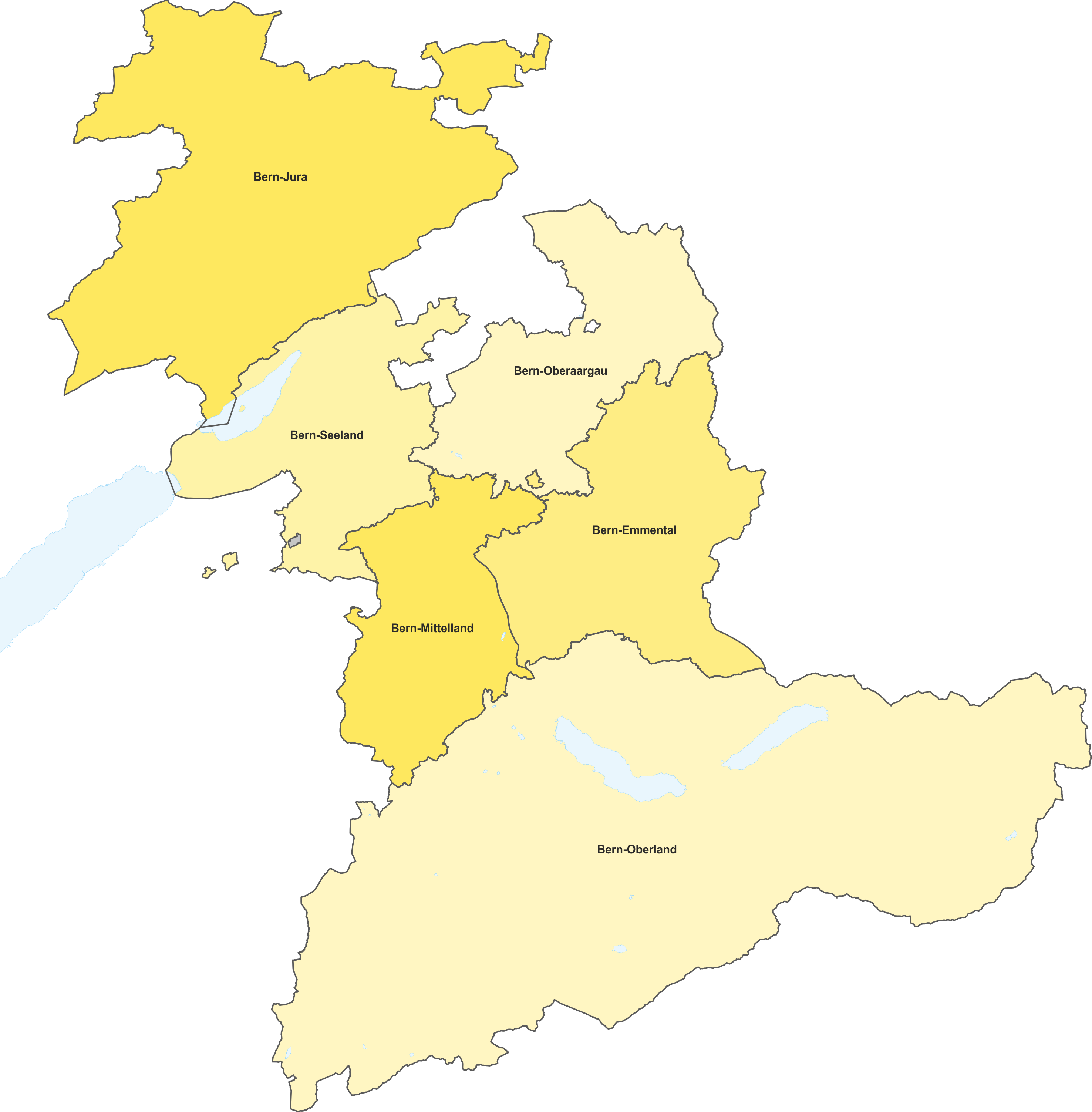 National council constituencies in the canton of Bern from 1872 to 1887